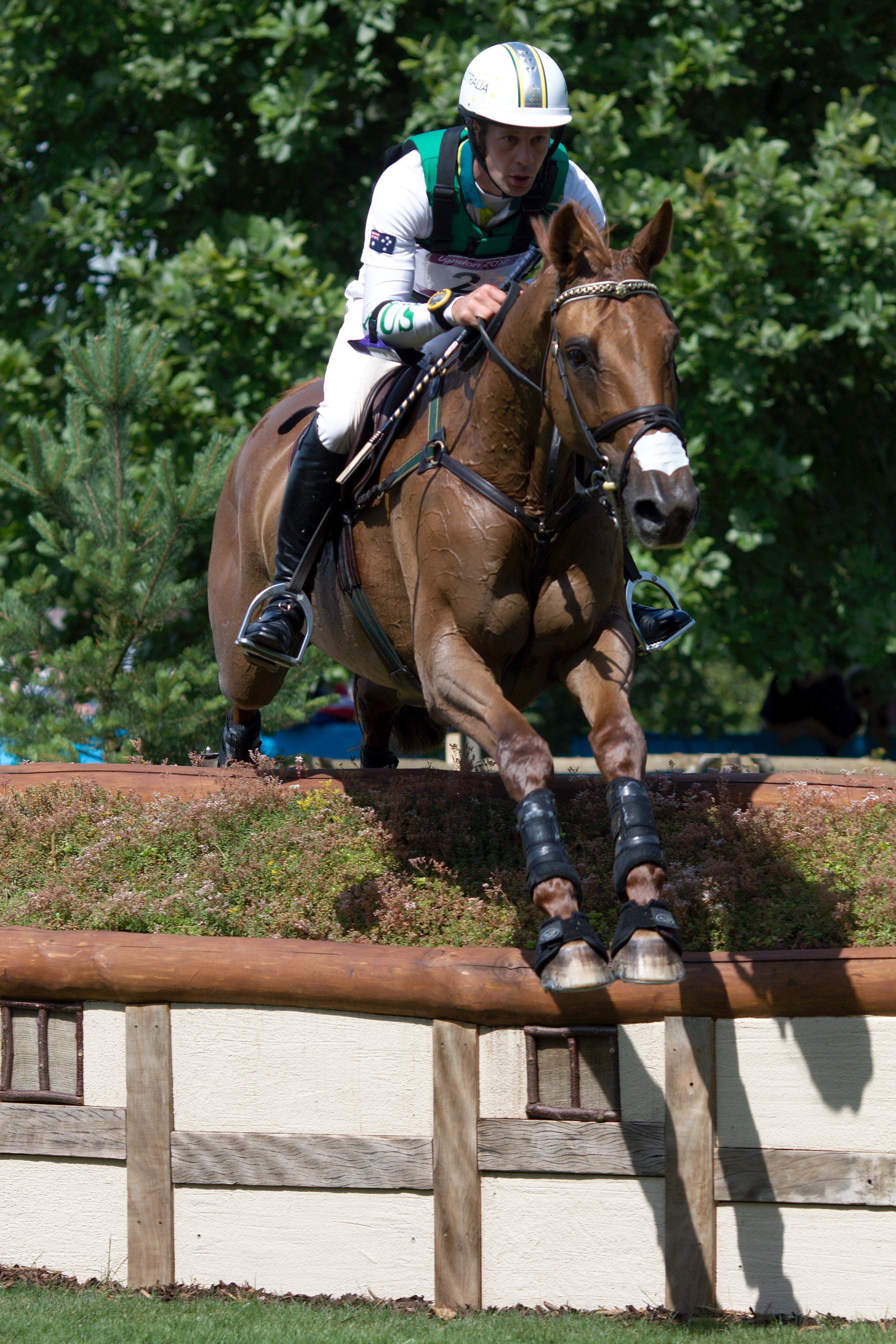 Chris Burton and HP Leilani, competing for AUS, at fence 27, during the cross-country phase of the Eventing during the 2012 Olympic Games in Greenwich Park, London.